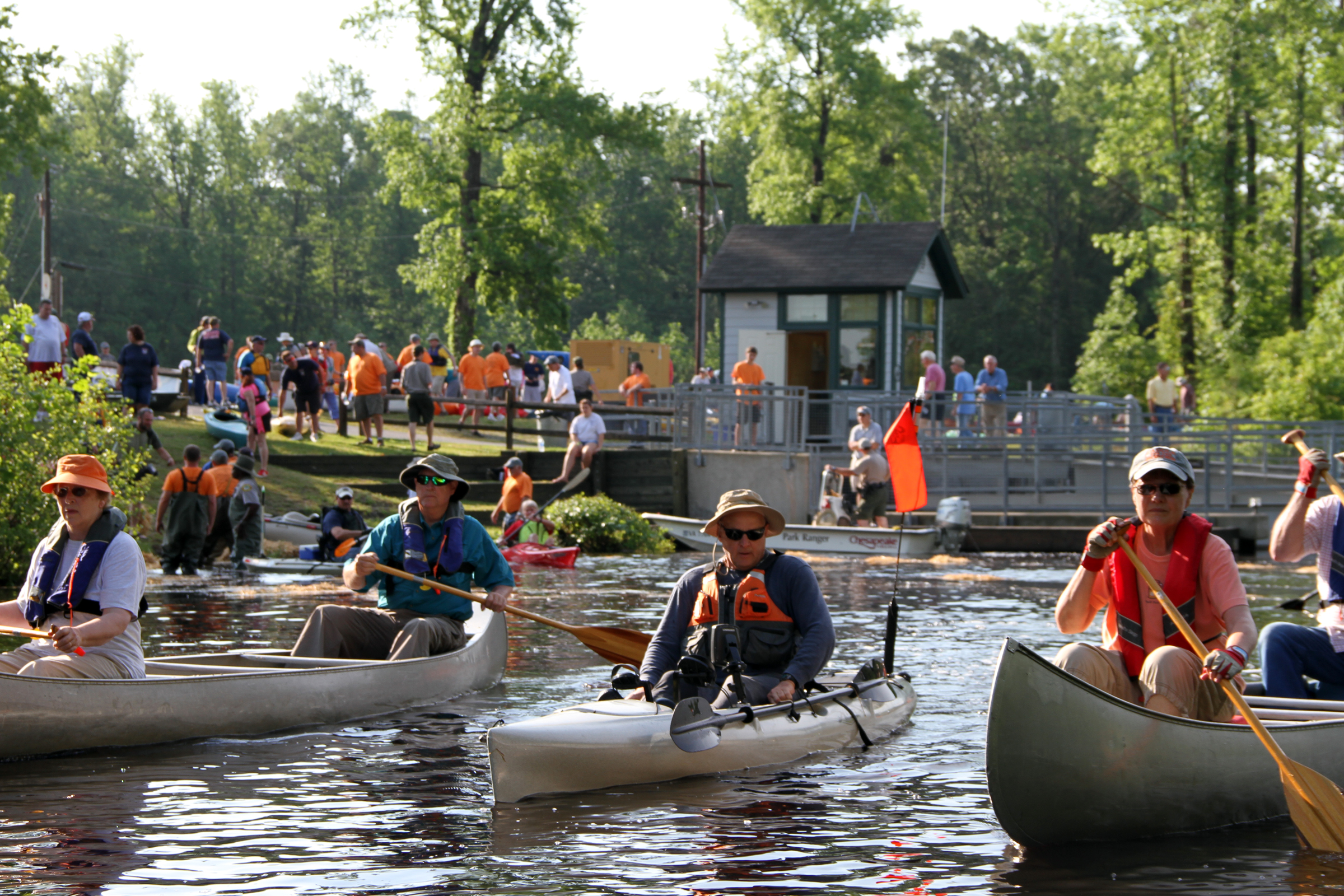 DISMAL SWAMP CANAL, N.C. -- More than 325 people participated in the City of Chesapeake’s 9th Annual Paddle for the Border event Saturday, May 5, 2012. And what better place to celebrate the spirit of America’s great outdoors then at the nation’s oldest continually operating canal - the dismal swamp. Paddlers began gathering as early as7 a.m. and launched at 8:30 a.m. from the Dismal Swamp State Park in South Mills, N.C. After paddling 7.5 miles participants gathered for a picnic lunch at the Dismal Swamp boat ramp on Ballahack Road. The flow of kayakers was steady throughout the morning and mid-day, a few motorized boaters shared the “road”, making their way to the Intracoastal Waterway. Law enforcement and public safety officials from North Carolina and Virginia were on site during the event—both on the water and observing from the shore— to assist with any emergency situations that may arise. Paddle for the Border is sponsored by the Dismal Swamp State Park, Dismal Swamp Canal Welcome Center, Great Dismal Swamp National Wildlife Refuge, and City of Chesapeake Parks and Recreation Department. (U.S. Army photo/Pamela Spaugy)